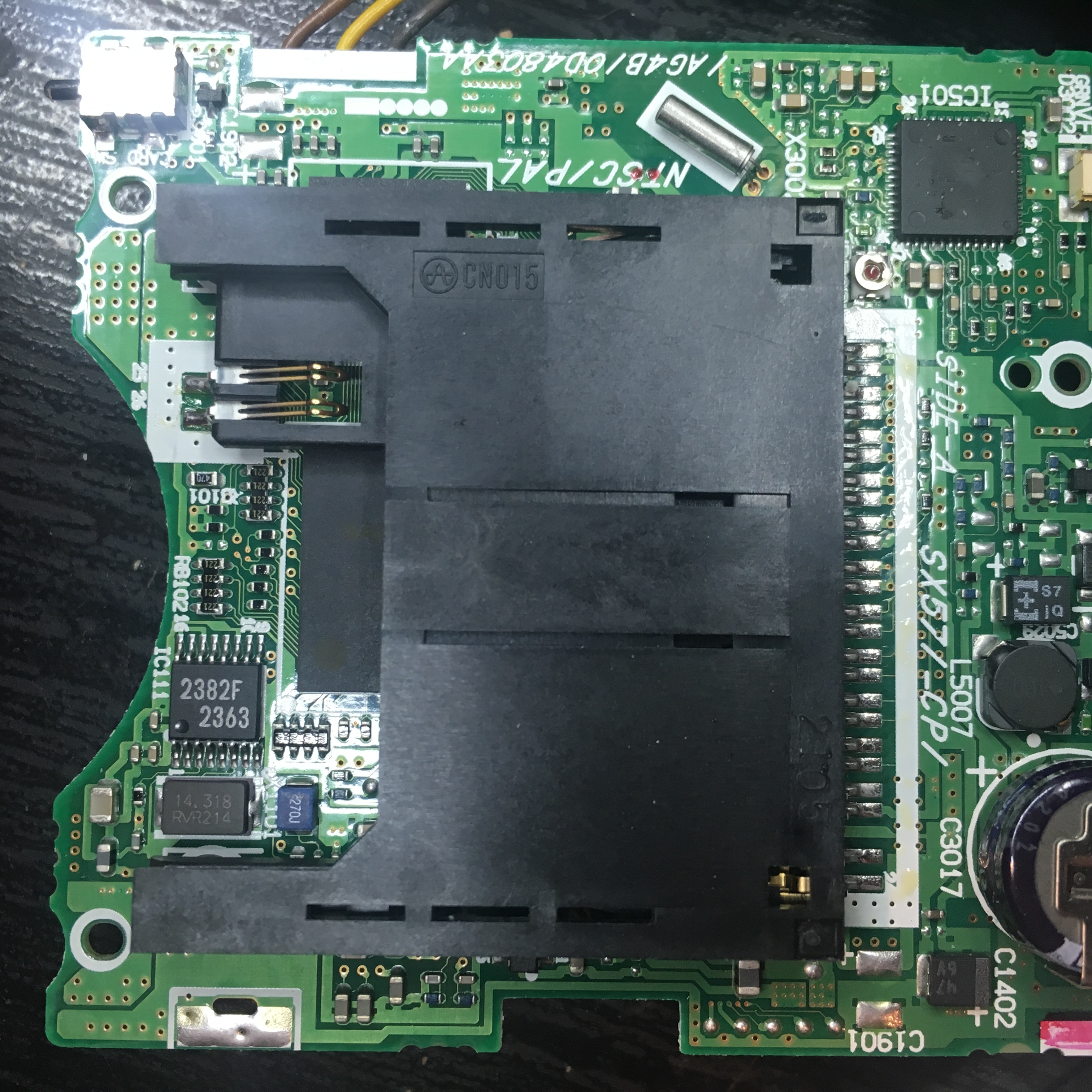 The SmartMedia card slot on the PCB of an Olympus D-380 Camera